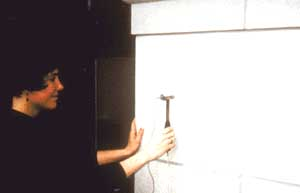 The use of one of many NDE techniques being used on historic masonry structures.